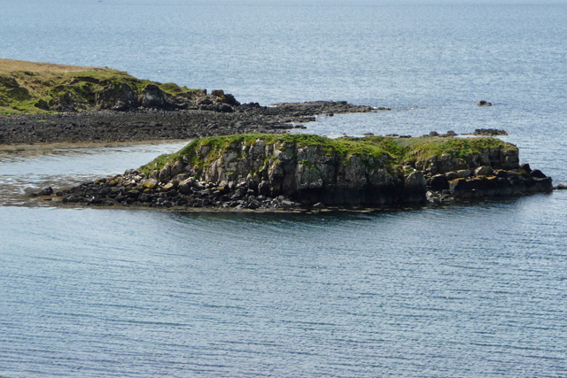 Dun Maraig The tidal island of Dun Maraig in Poll na h-Ealaidh has the vague remains of a fort on it. Once it was connected to the shore by a causeway, and it is still possible to walk across to it at very low tide. Perhaps more interestingly, the small island was won as the star prize in a 1994 German TV game show by a Stefan Schluznus of Bremen. A pretty useless, but fun, sort of prize.